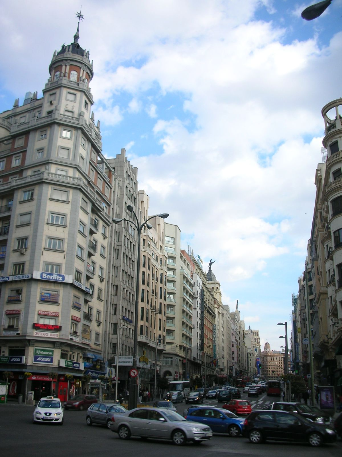 A view of the Gran Vía, a downtown avenue in Madrid (Spain).